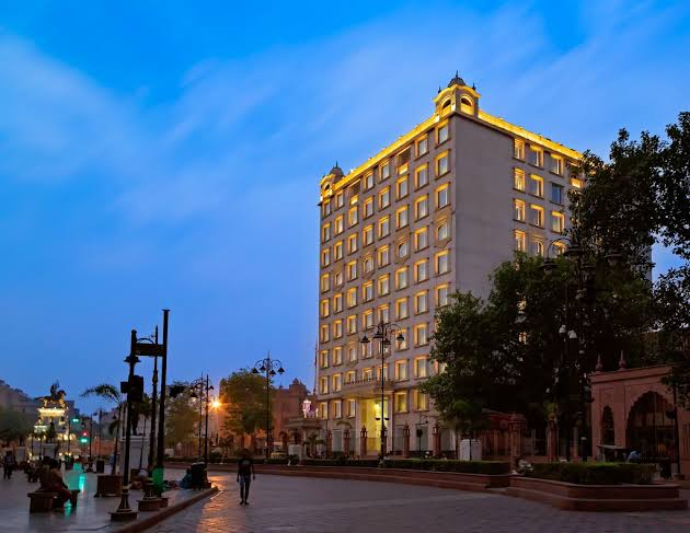 Saragadi sarai near golden temple in Amritsar, Punjab.